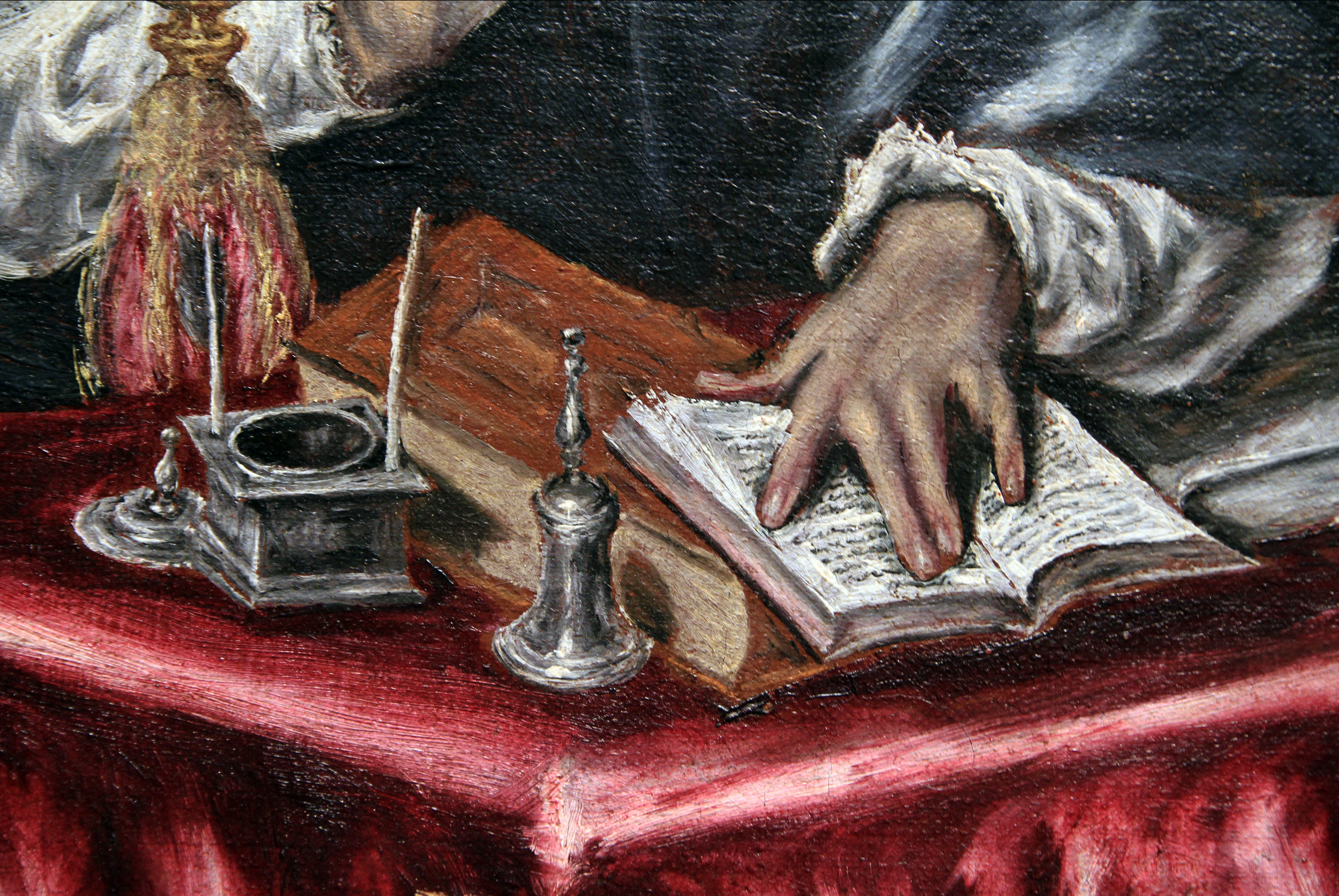 El Greco, Saint Ildefonsus or Ildephonsus, detail